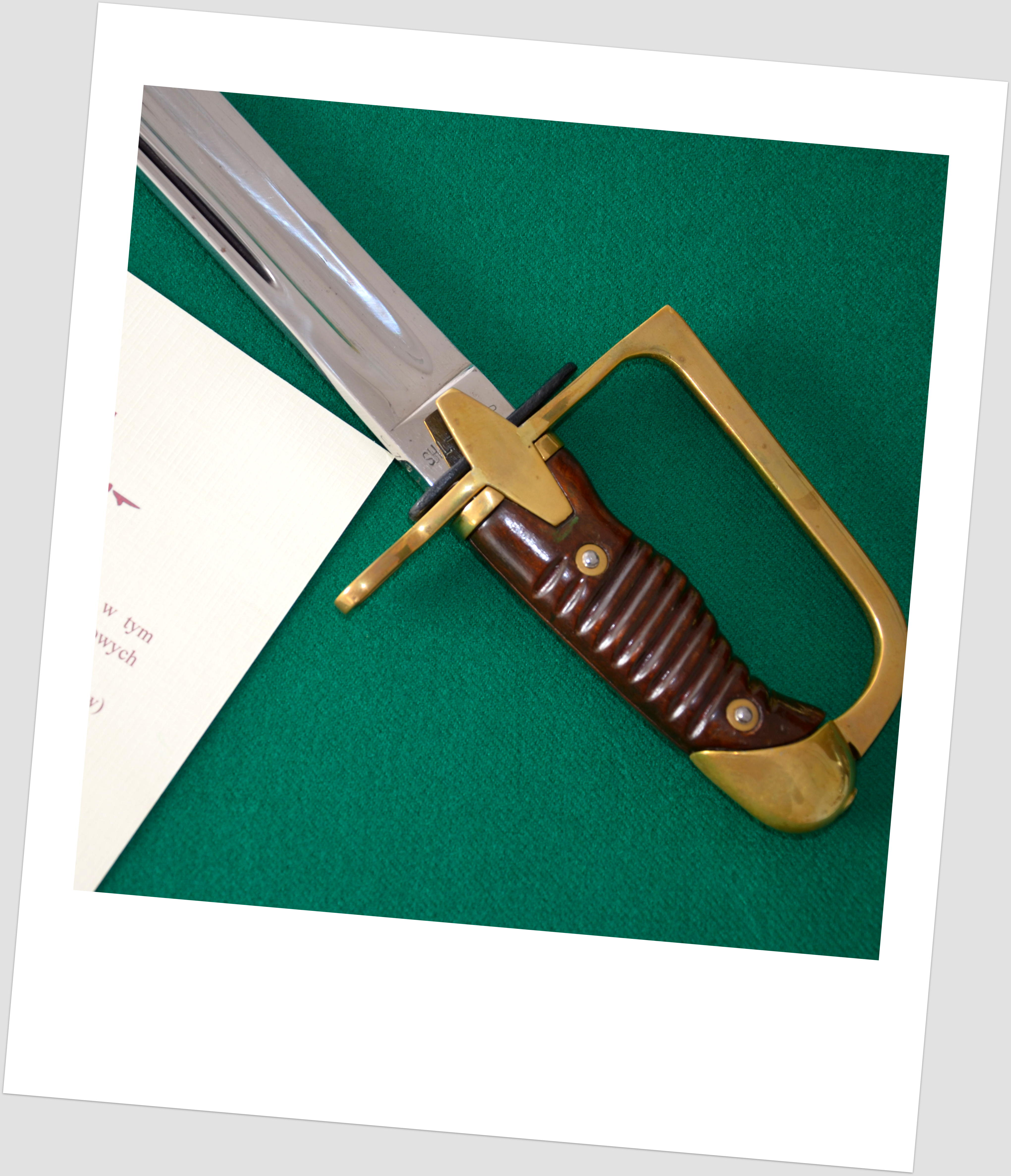 Polnischer Säbel M 1934